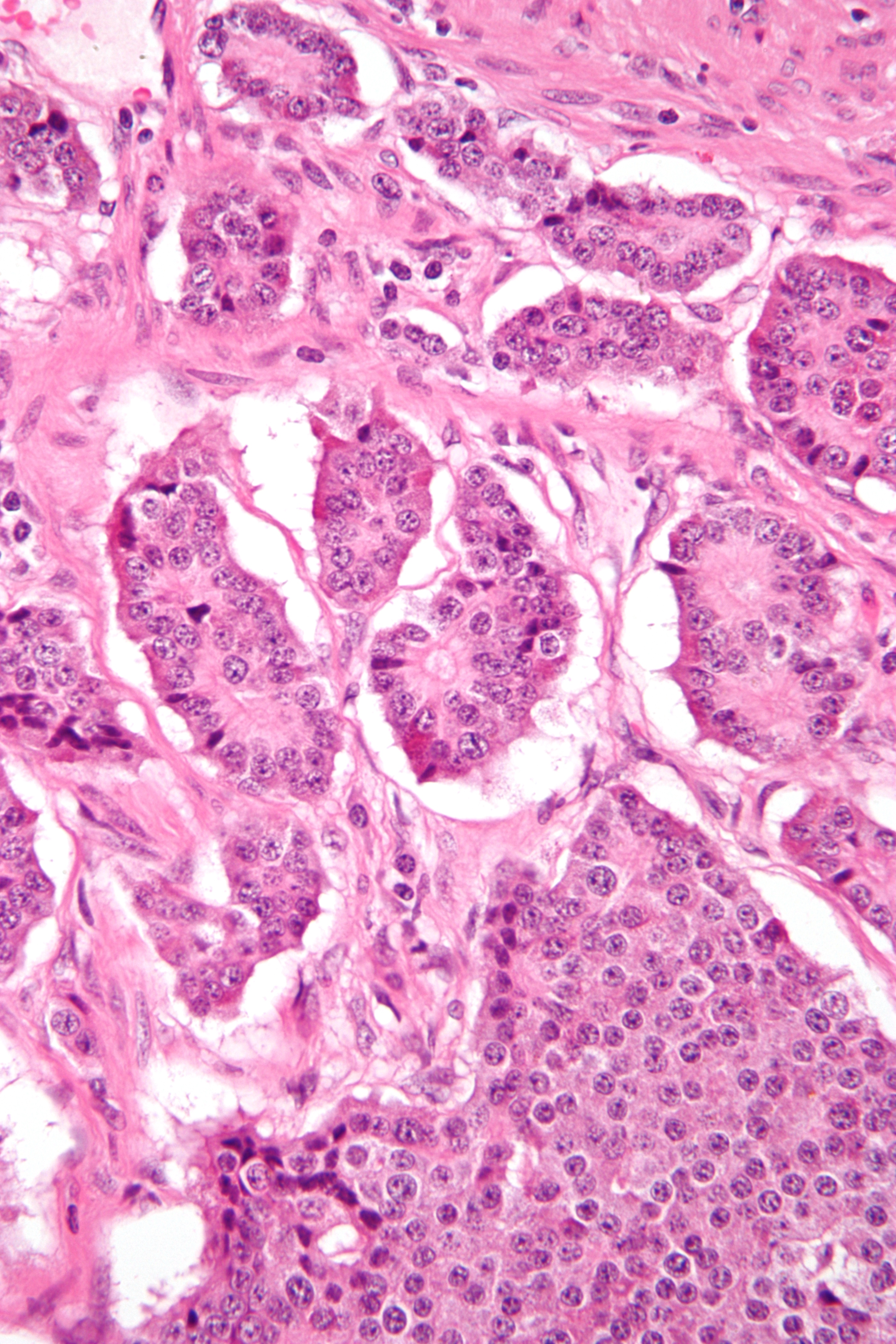 High magnification micrograph of a small intestine neuroendocrine tumour. H&E stain. Related images Low mag. Intermed. mag. High mag. High mag. (cropped)